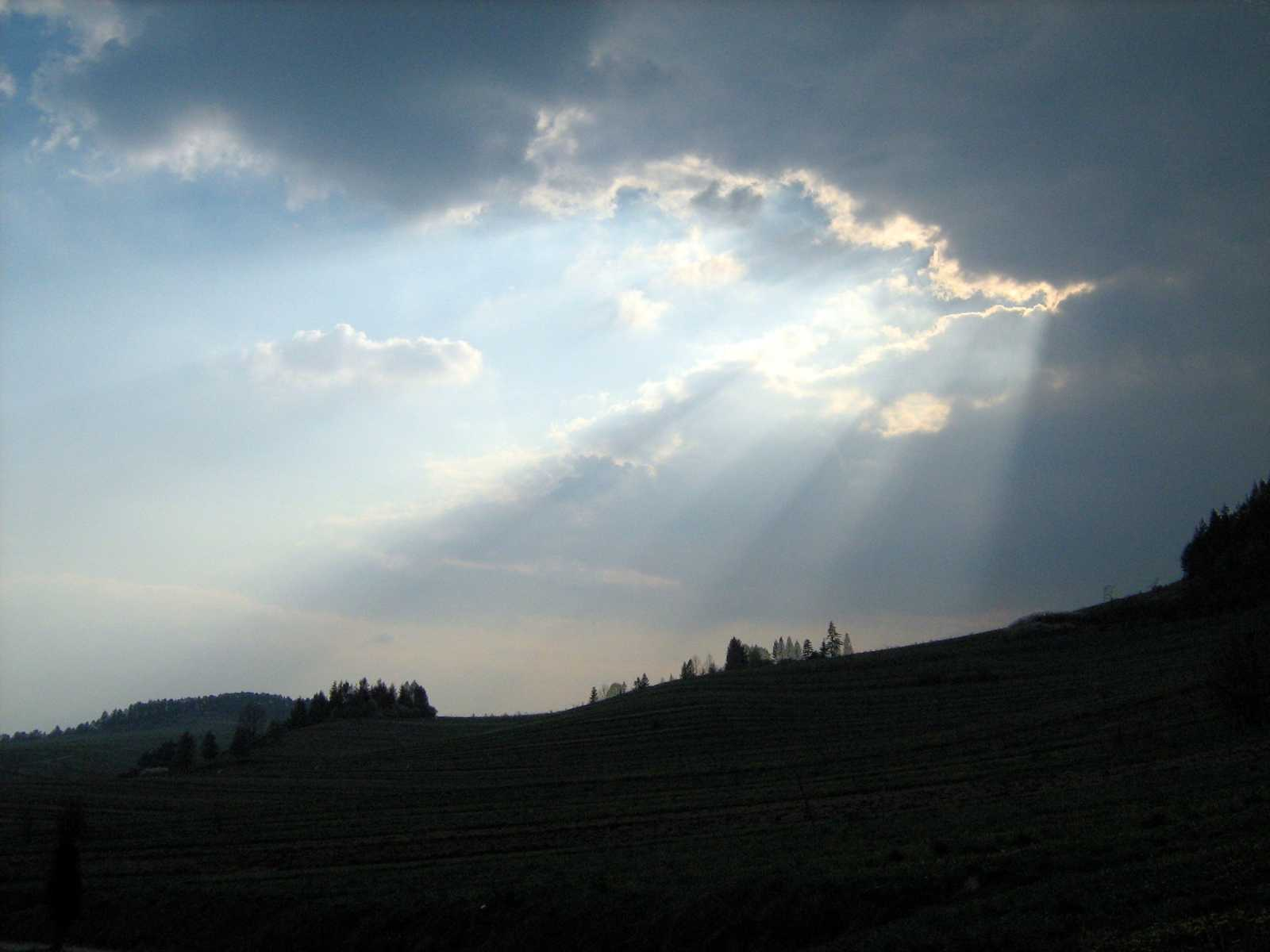 Sun in the Pieniny, Poland